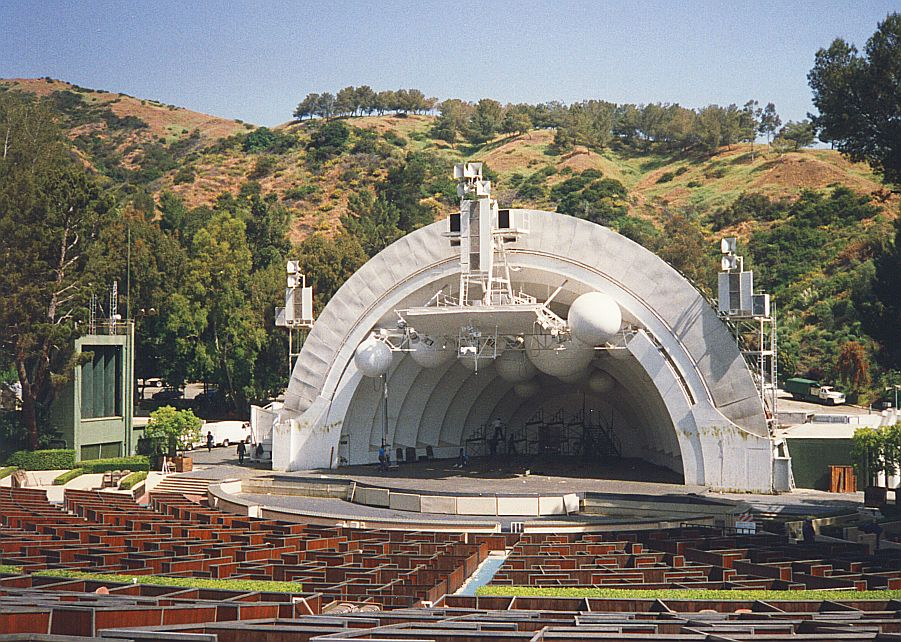 Large version, 1993-04-12